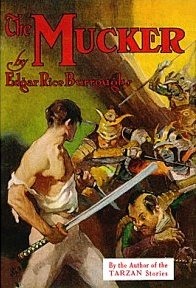 First edition cover of The Mucker by Edgar Rice Burroughs